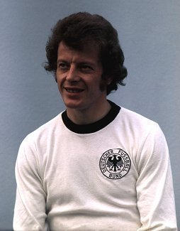 A picture of Herbert Wimmer